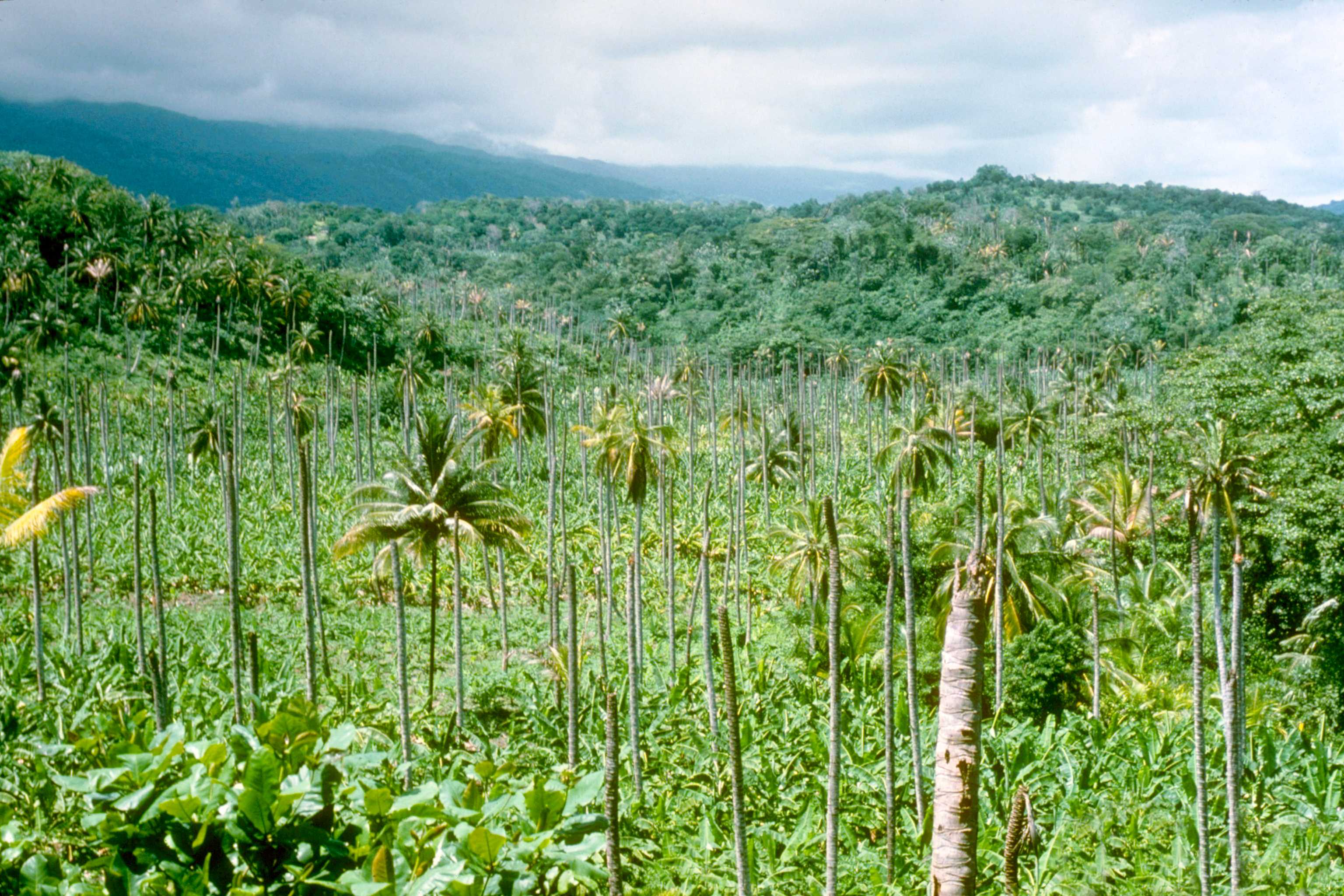 Palm lethal yellowing - Candidatus Phytoplasma palmae - infected palm stand